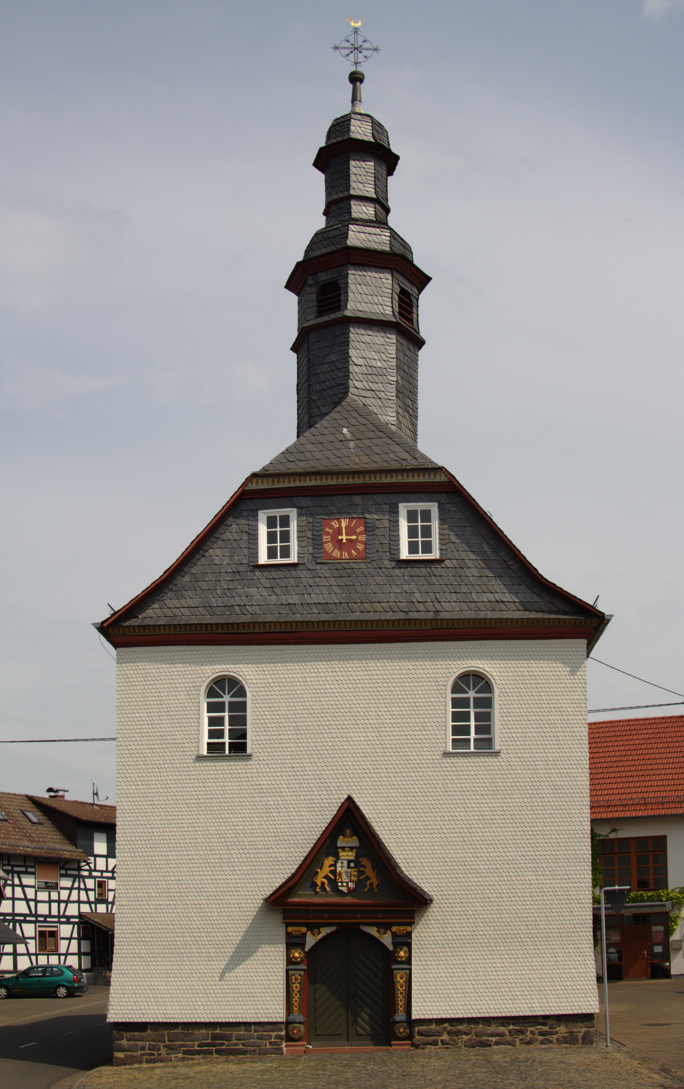 Protestant church in Muecke Sellnrod, Hesse, Germany